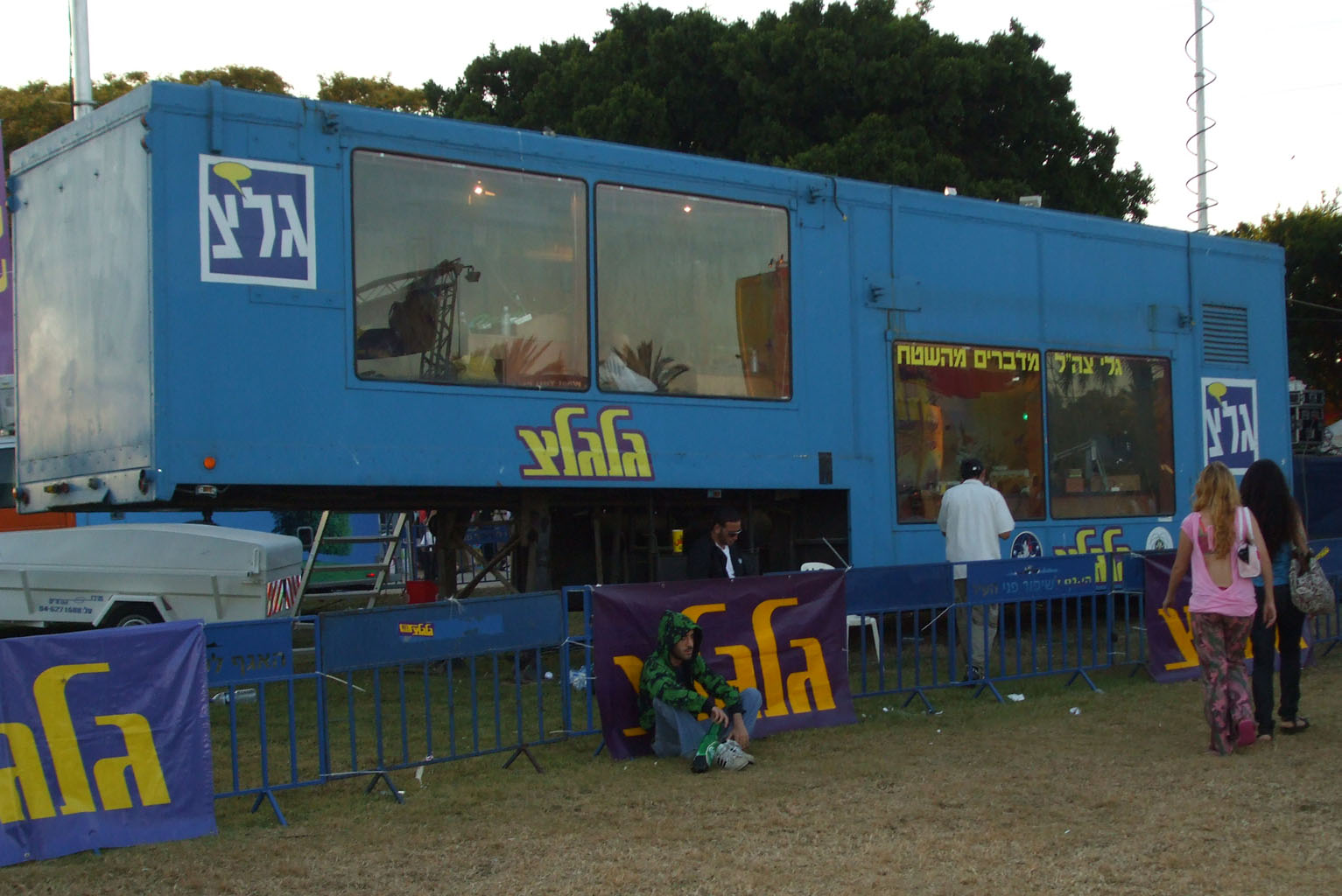 Galgalatz studio at "Ta'am ha'ir" in Tel Aviv.